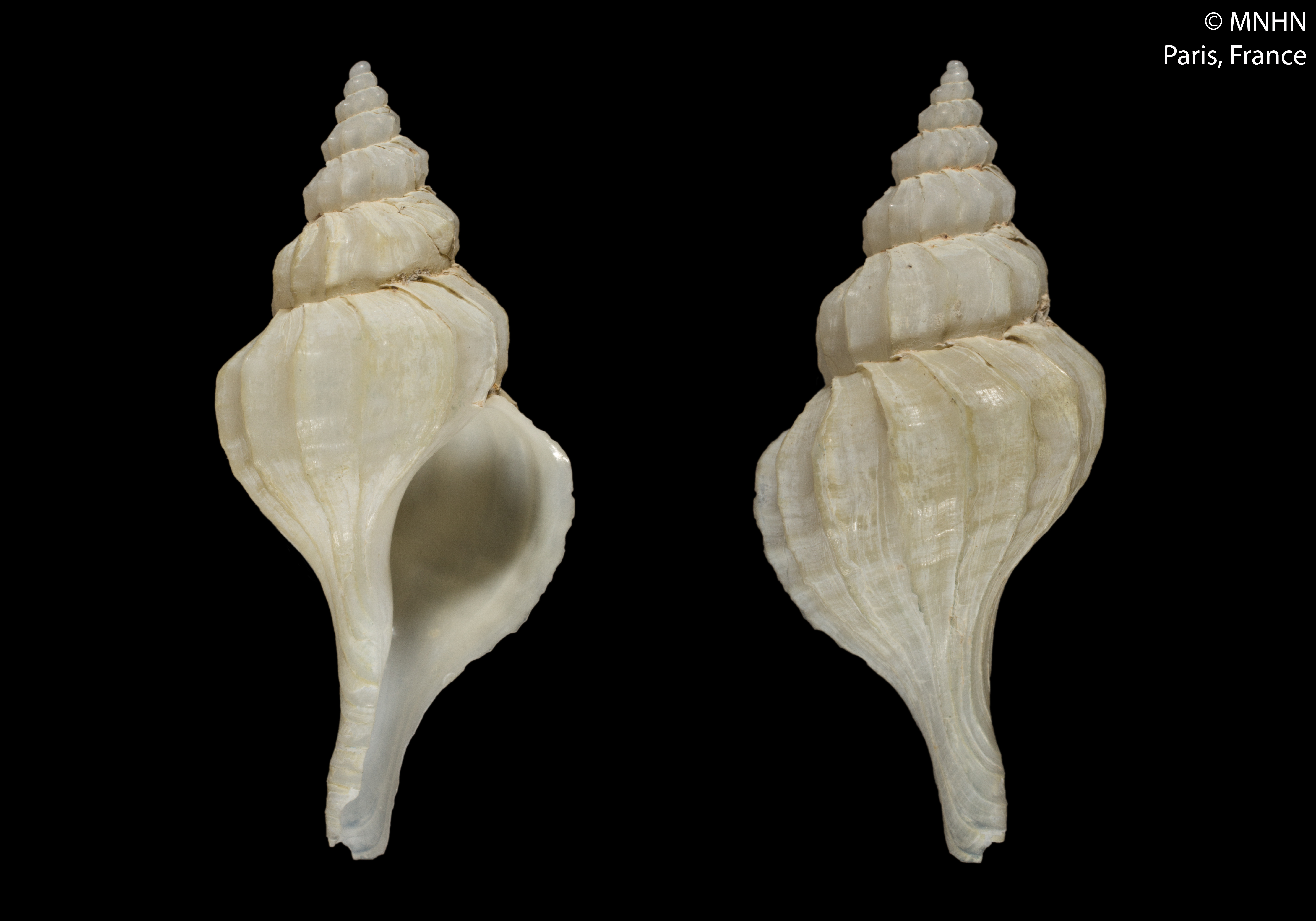 PRESERVED_SPECIMEN; Trophon mucrone Houart, 1991; Type status: HOLOTYPE; Identified by: N/A; Individual count: 1; Event date: 1987-05-28T00:00:00Z